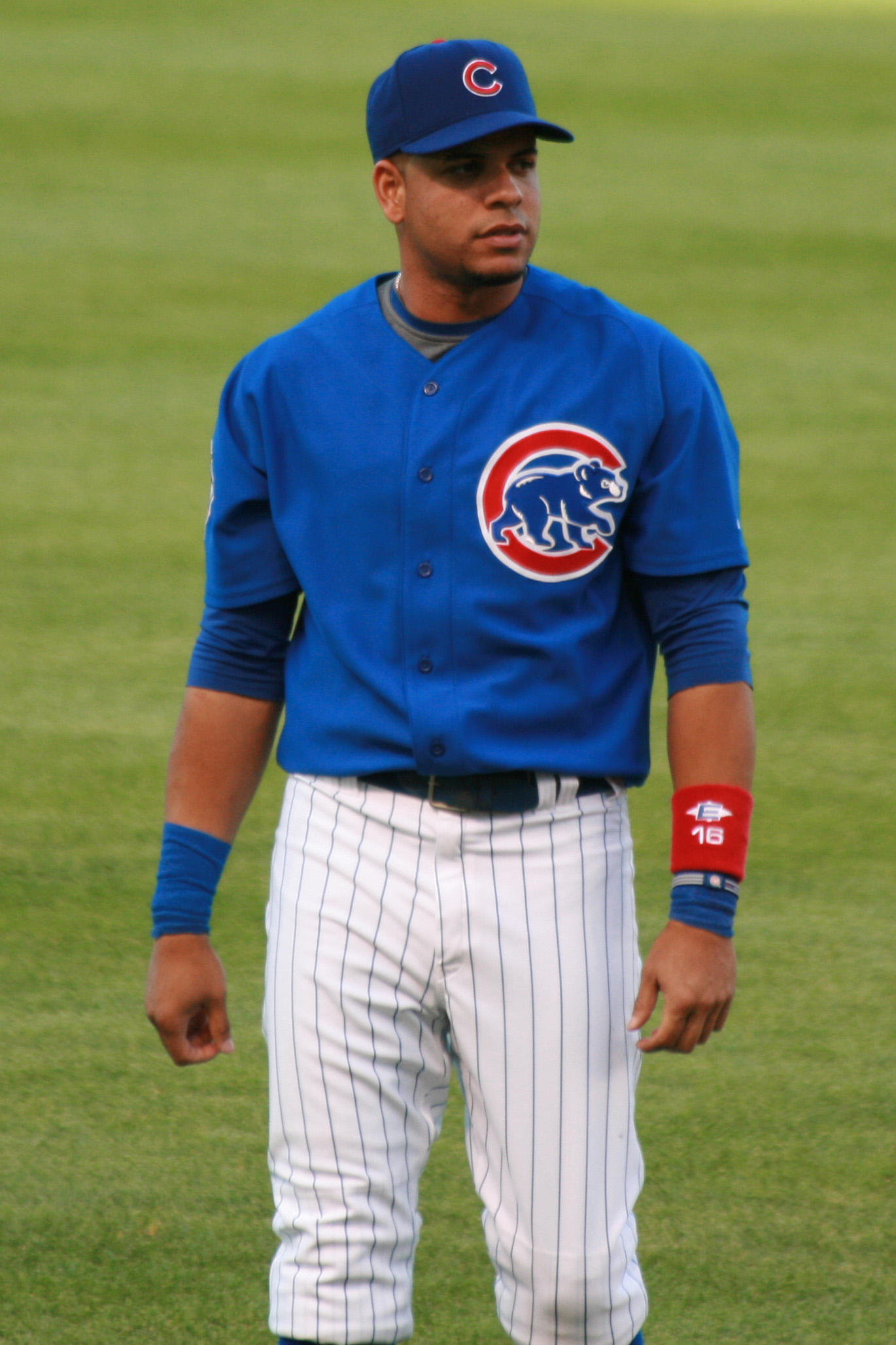 Aramis Ramírez of the Chicago Cubs warms up before a game (cropped).